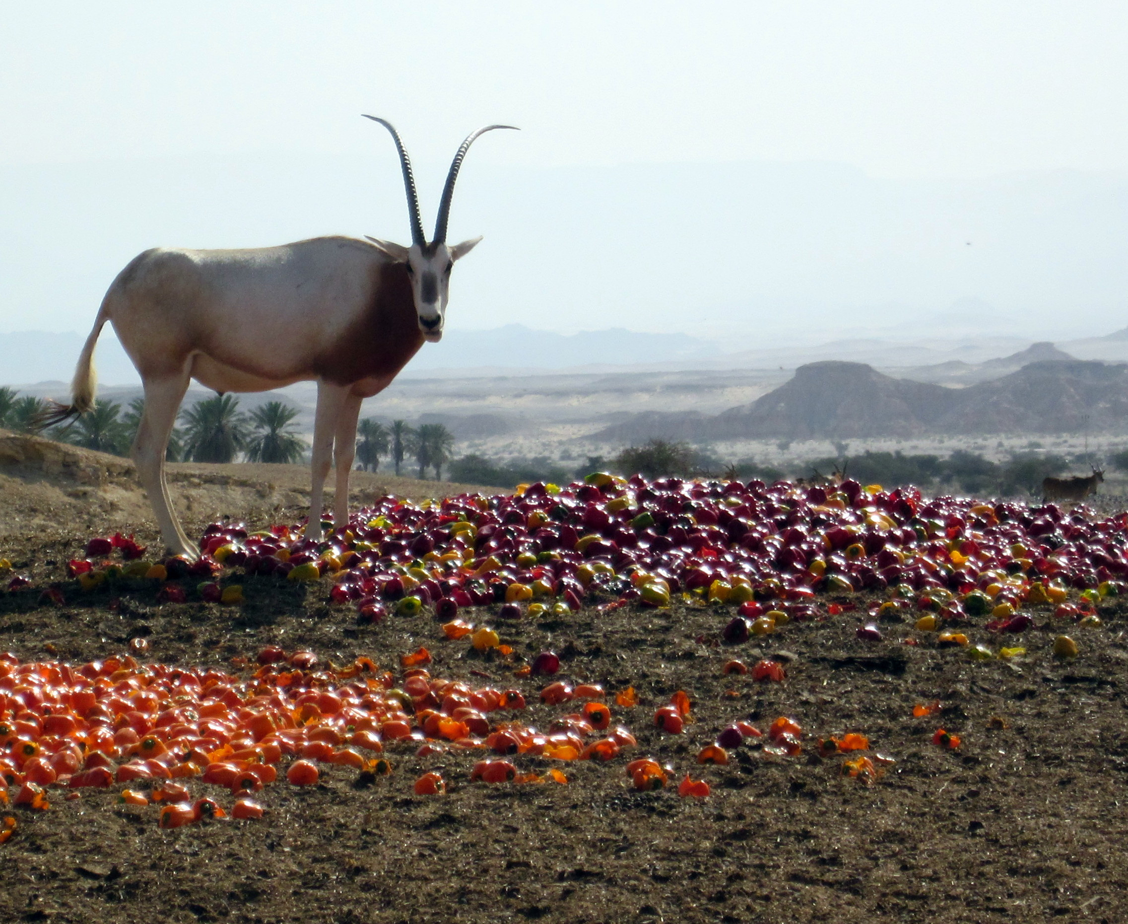 Wildlife and Plants of Israel